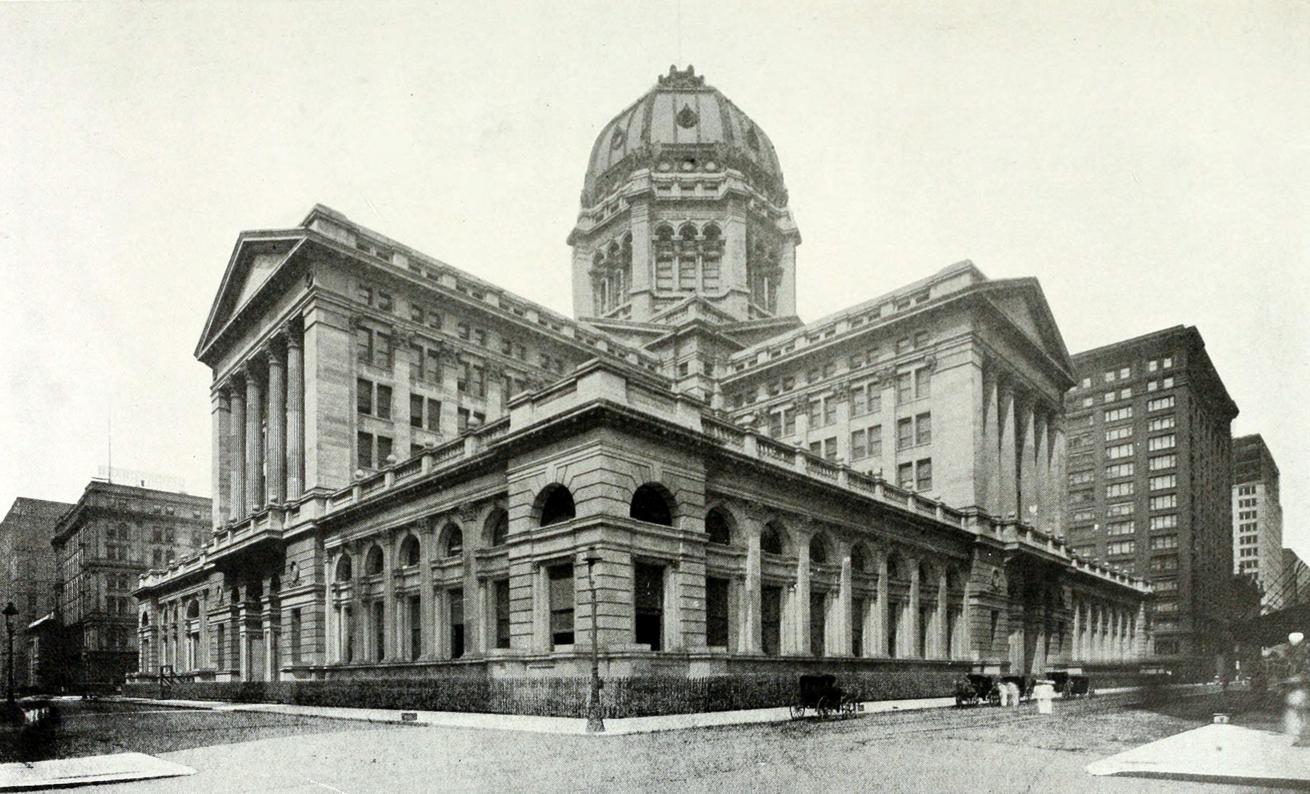 Chicago Federal Building circa 1910